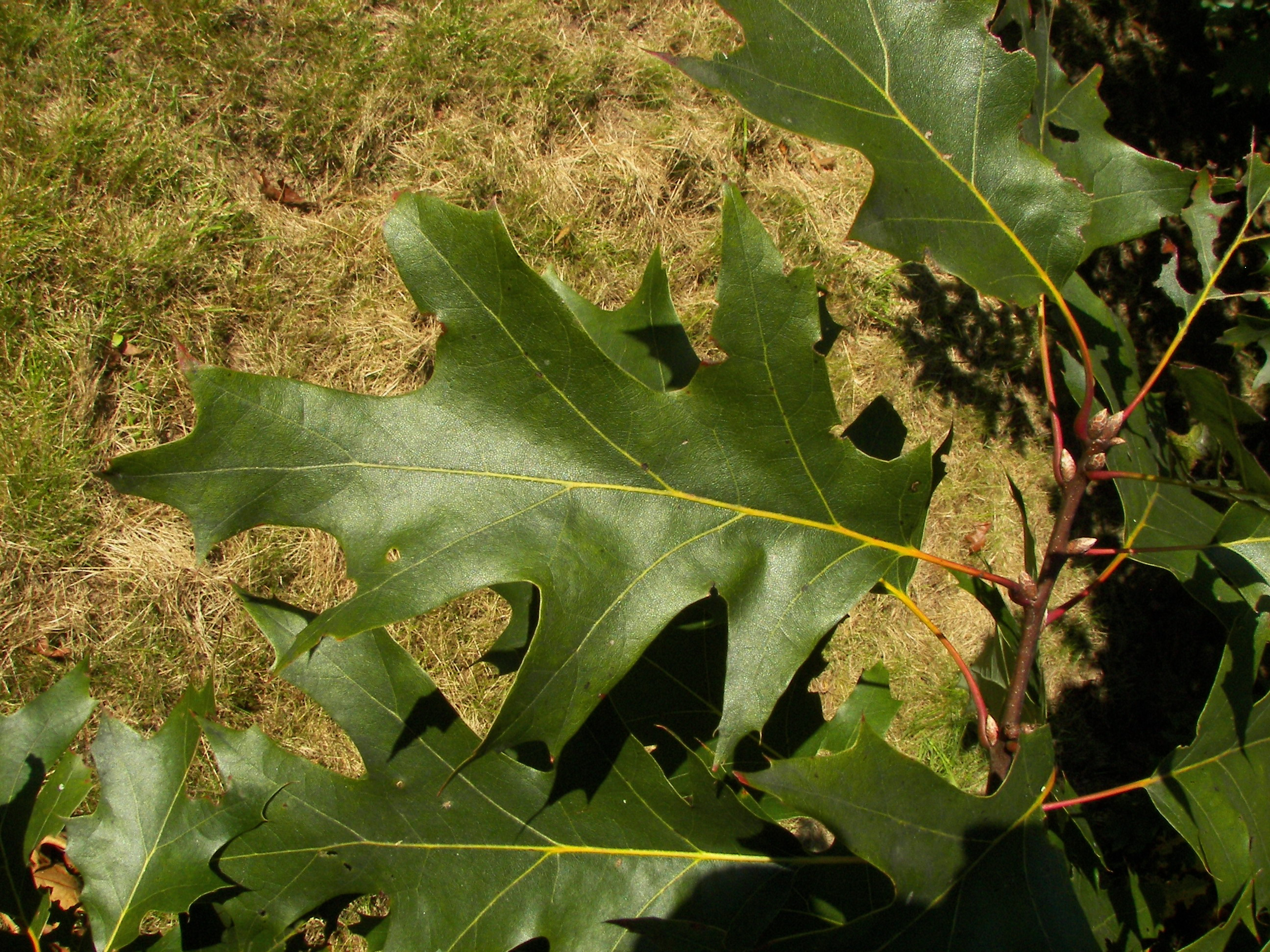 Dyer's Oak (Quercus velutina) in the New Botanical Garden Marburg, Hesse, Germany